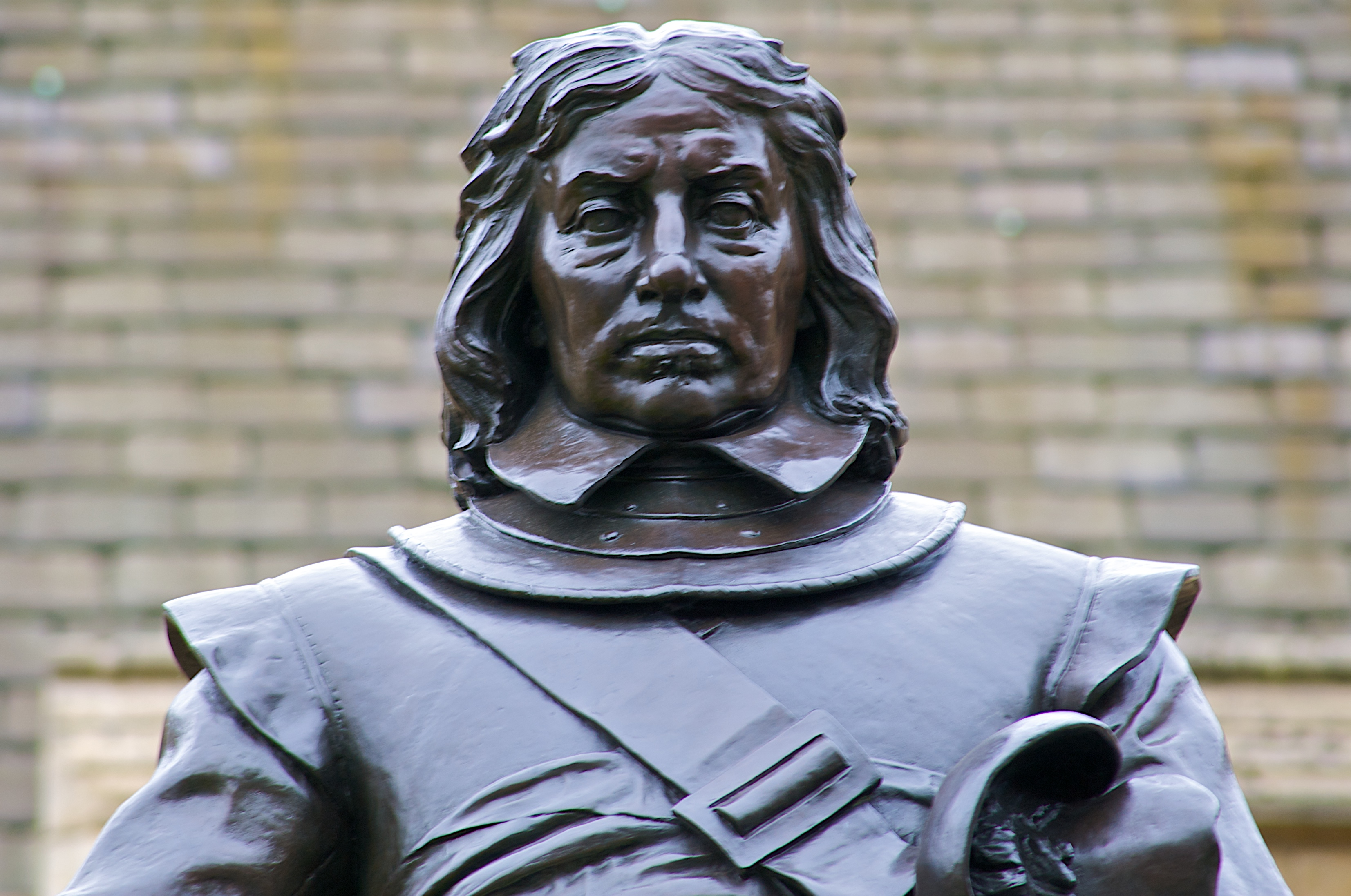 The statue of Oliver Cromwell that stands outside the Palace of Westminster in London.